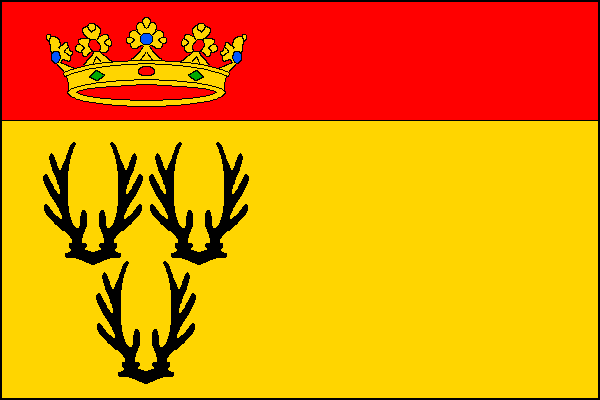 Municipal flag of Teplá town, Cheb District, Czech Republic.